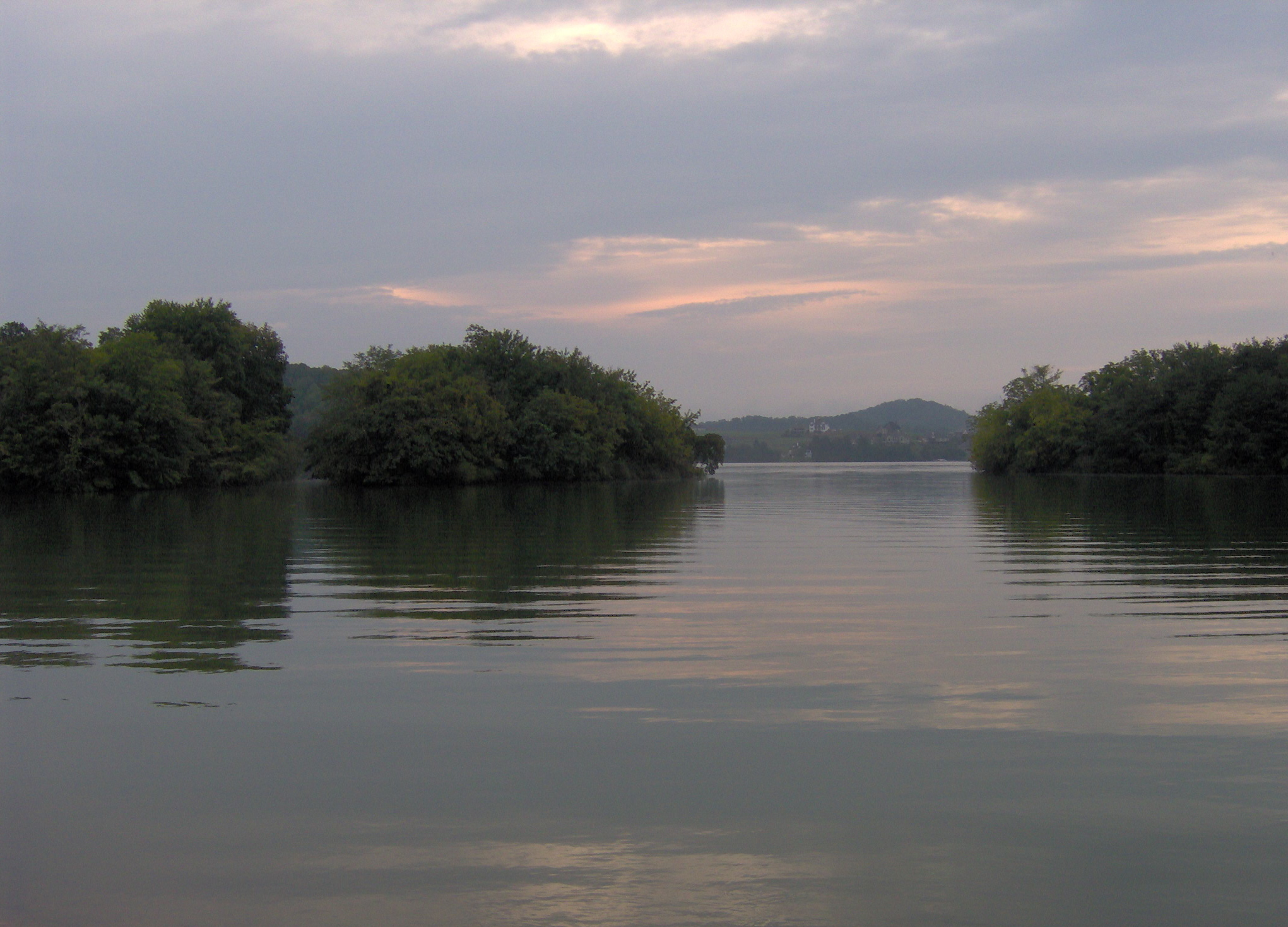 The former site of Morganton, Tennessee, in the Southeastern United States. The site was inundated by the Tellico Reservoir in 1979.